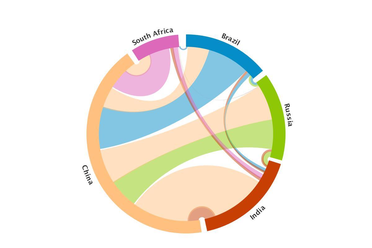 2016 BRICS export in a million USD